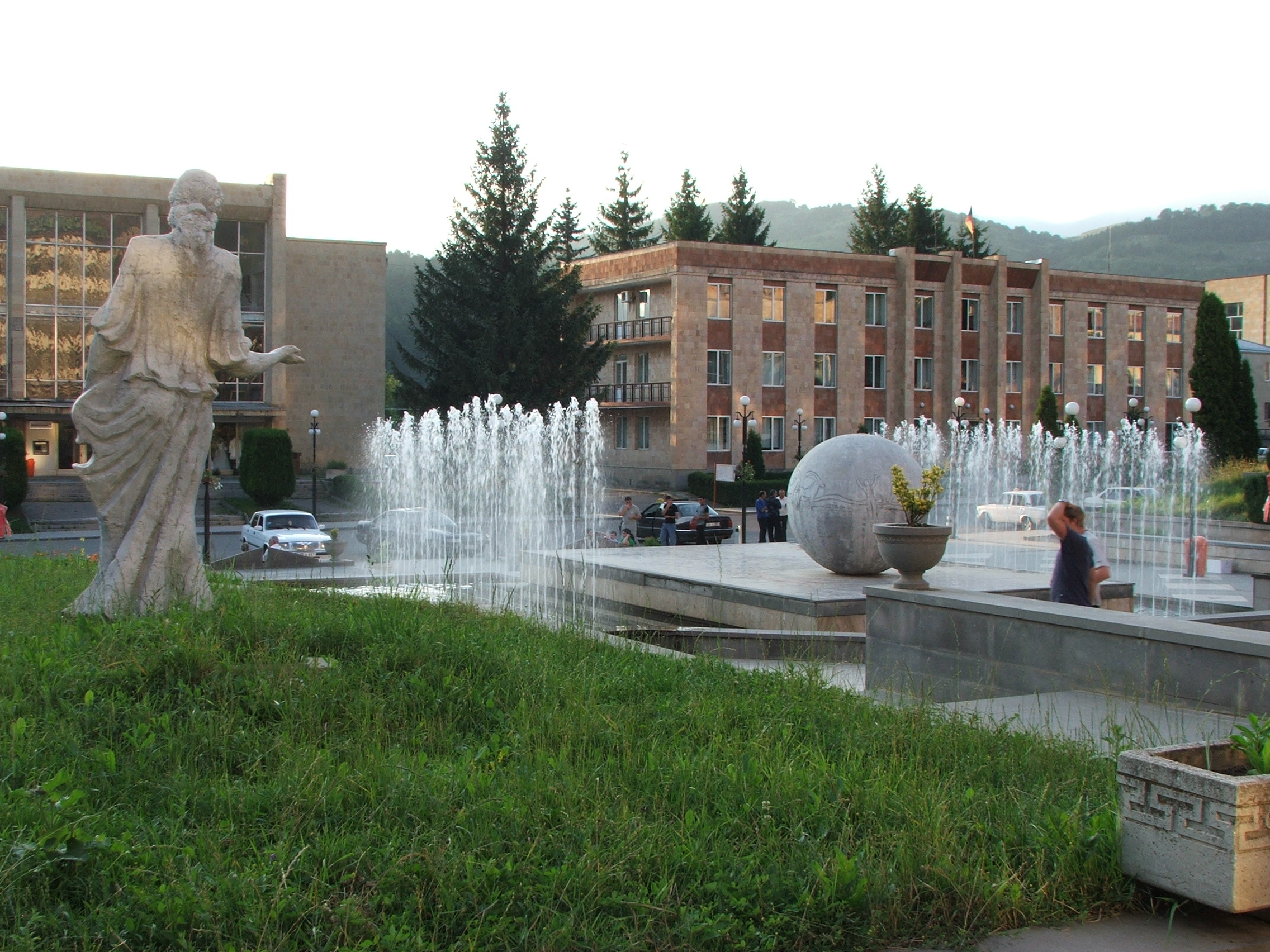 Fountain in front of Dilijan Municipality